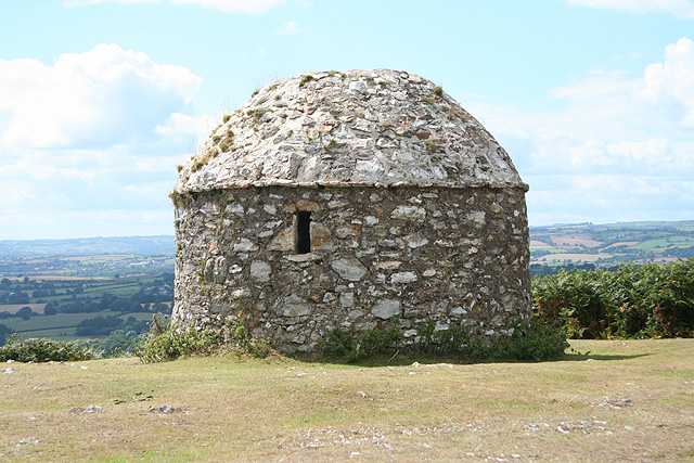 Culmstock: Culmstock Beacon. This stone hut stands 250 m above sea level, close to a triangulation pillar and on the edge of the Blackdown Hills. It partially encloses a pole-beacon which was a communications signal ready for use when the Spanish Armada was sighted in the English Channel in 1588. Fires on the coast would be lit and then one by one a network of fire beacons set ablaze. This was the signal for all able-bodied men to assemble at their local church, await instructions and arm themselves. This is possibly the only beacon hut in the country to survive in its original form. It linked with others at Holcombe Rogus, Upottery and Blackborough. This slit window allowed observers to watch for a light at Upottery beacon. Looking west-north-west.